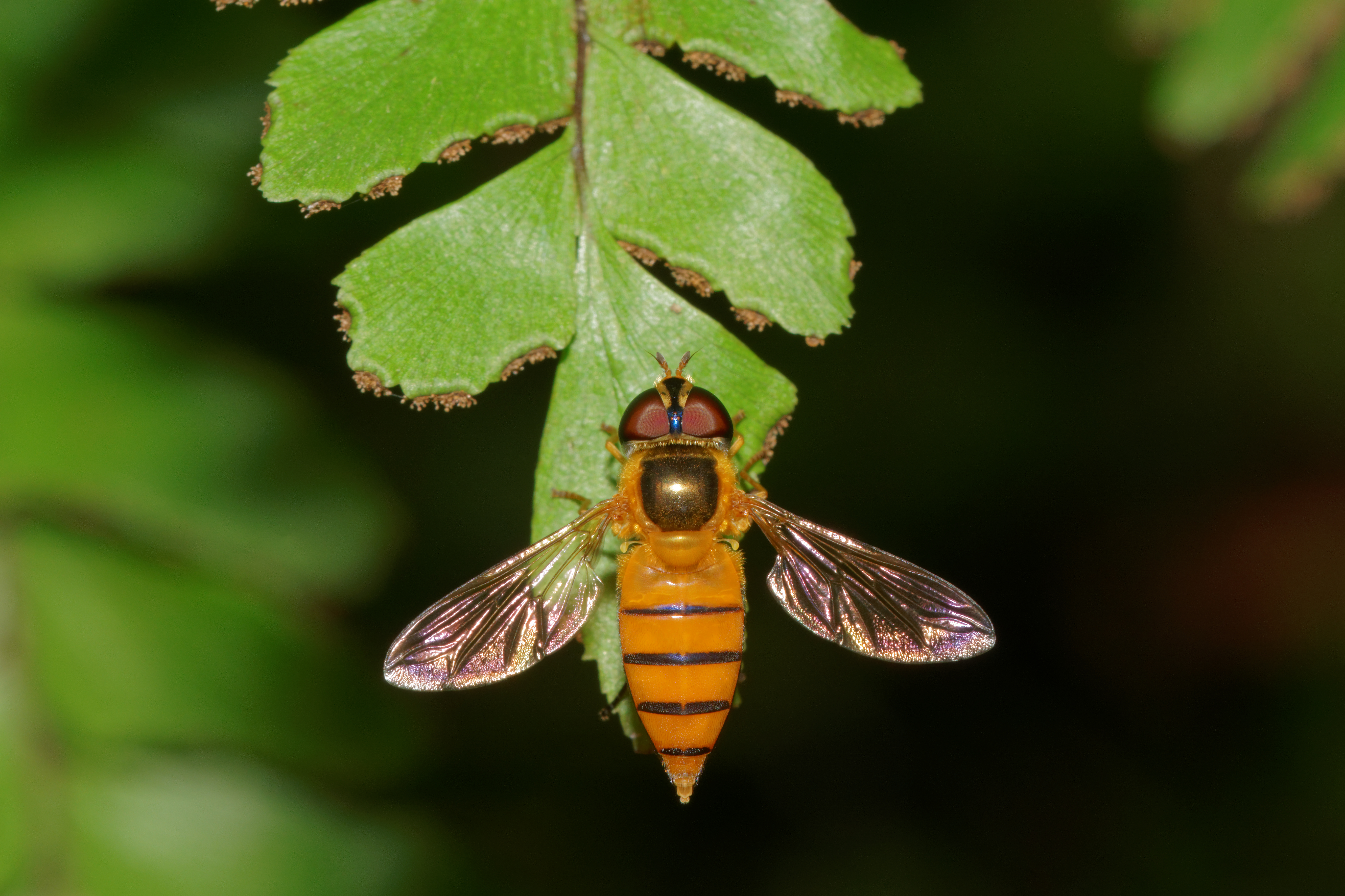 Asarkina, probably Asarkina ericetorum in India